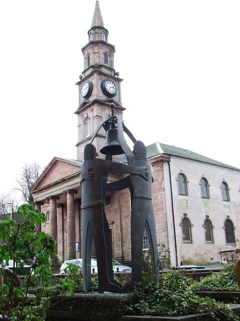 Greenock Mid Kirk from Sculpture Garden The Mid Kirk is on cathcart Square. See 322401 for information about the Sculpture Garden.